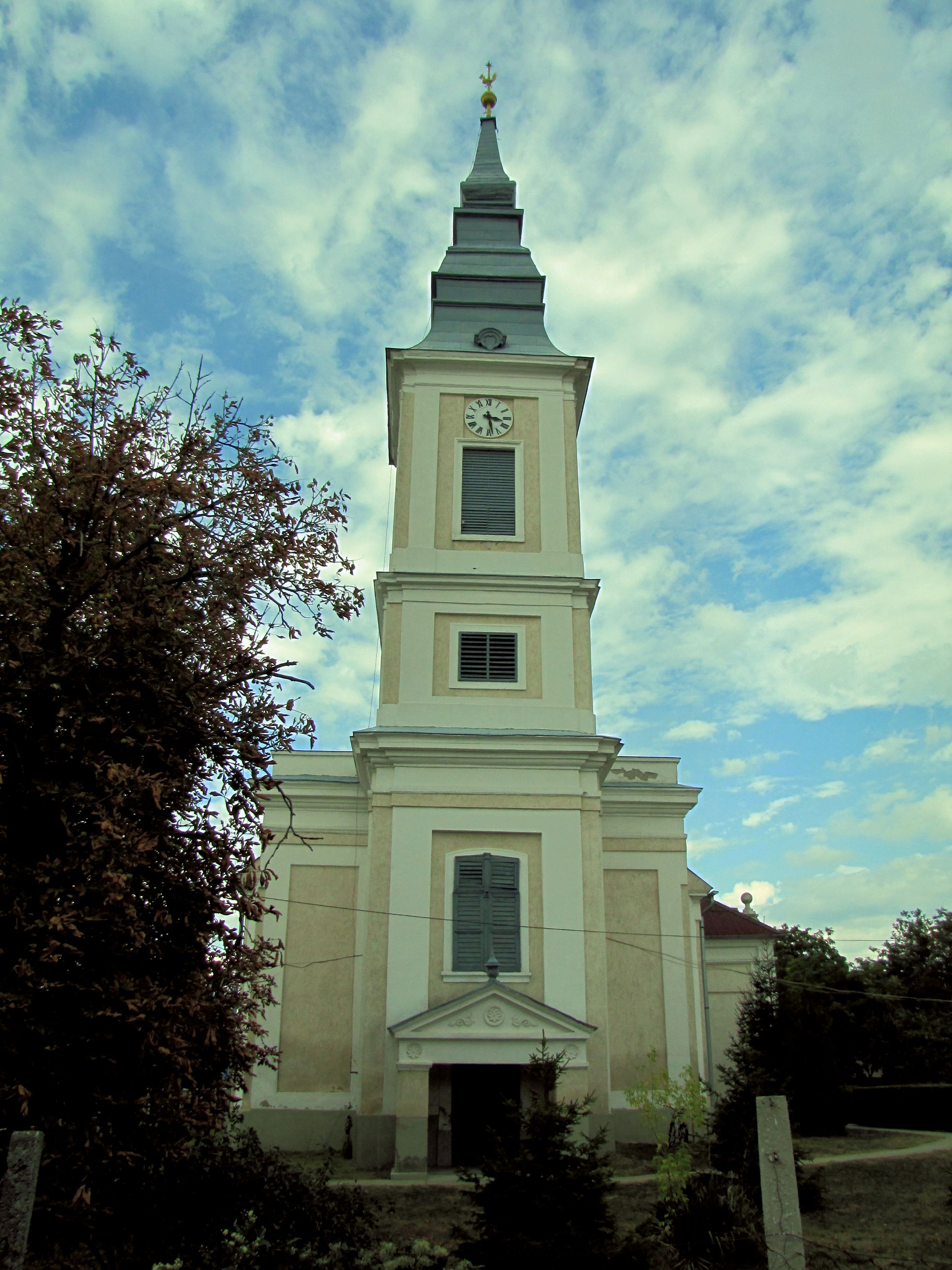 Calvinist church, Poroszló, Hungary